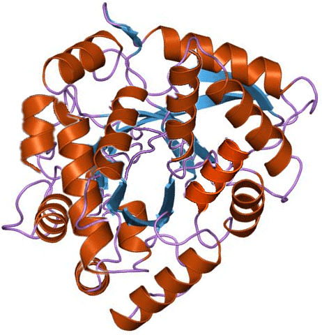 Gliadin is a class of proteins present in wheat and several other cereals within the grass genus Triticum. It is the main toxic fraction of gluten for people with gluten-related disorders.